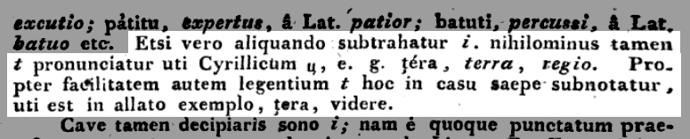 Crop of page 44 highlighting passage introducing s with cedilla for the proposed Latin orthography of Romanian in 1825.